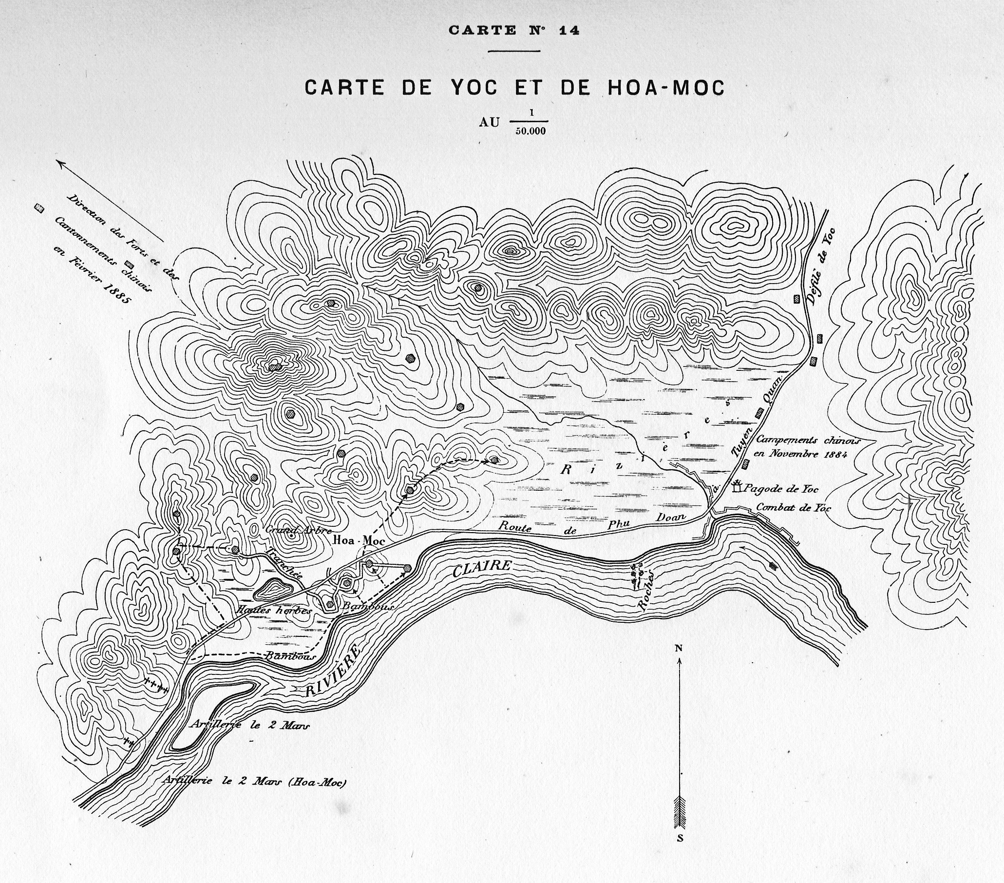 French map of the Battles of Yu Oc (19 November 1884) and Hoa Moc (2 March 1885)